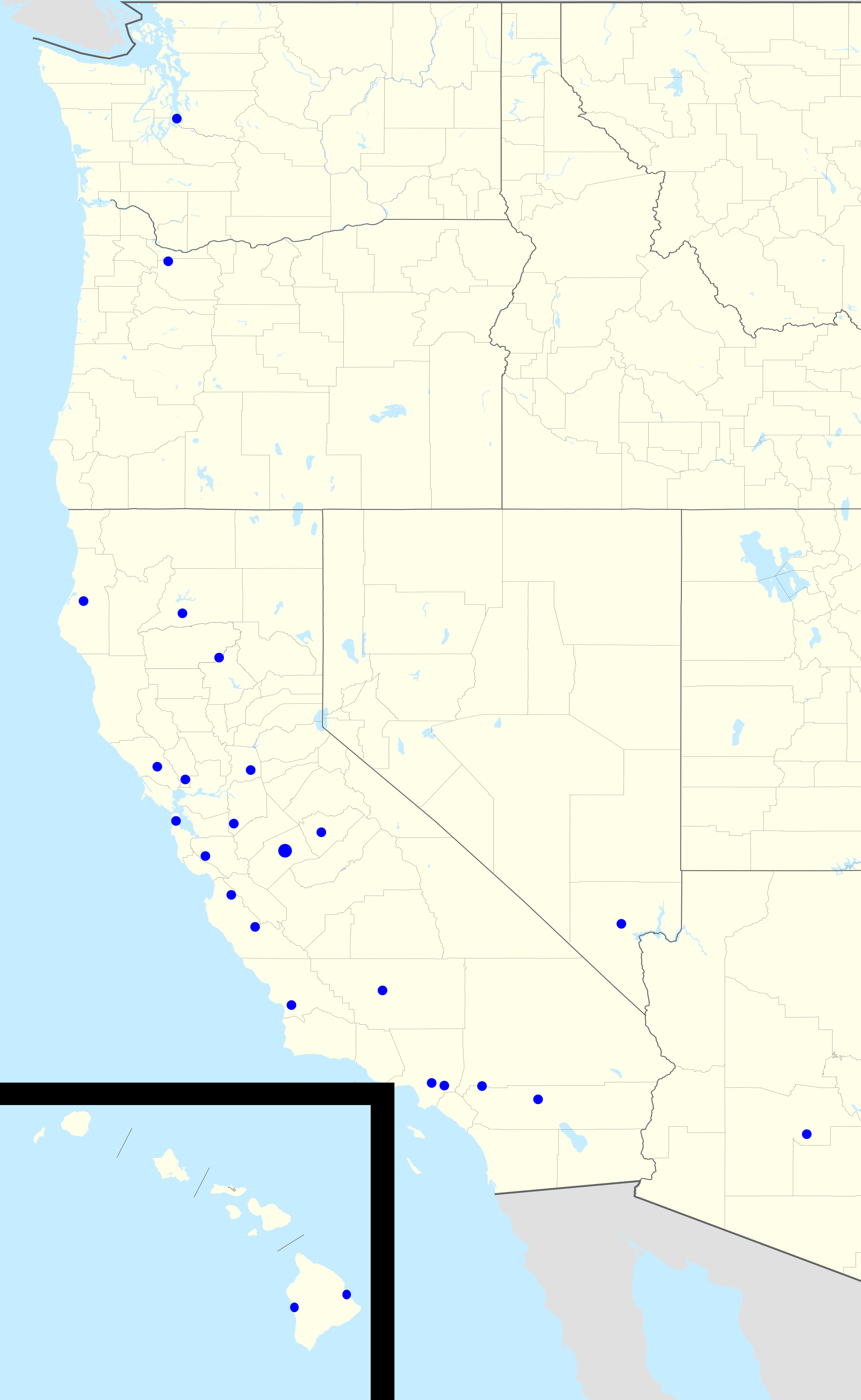 Oakland Raiders Radio Network: map of radio affiliates. Not pictured: KASR-FM (Little Rock, Arkansas); KXMR-AM (Bismark, North Dakota)